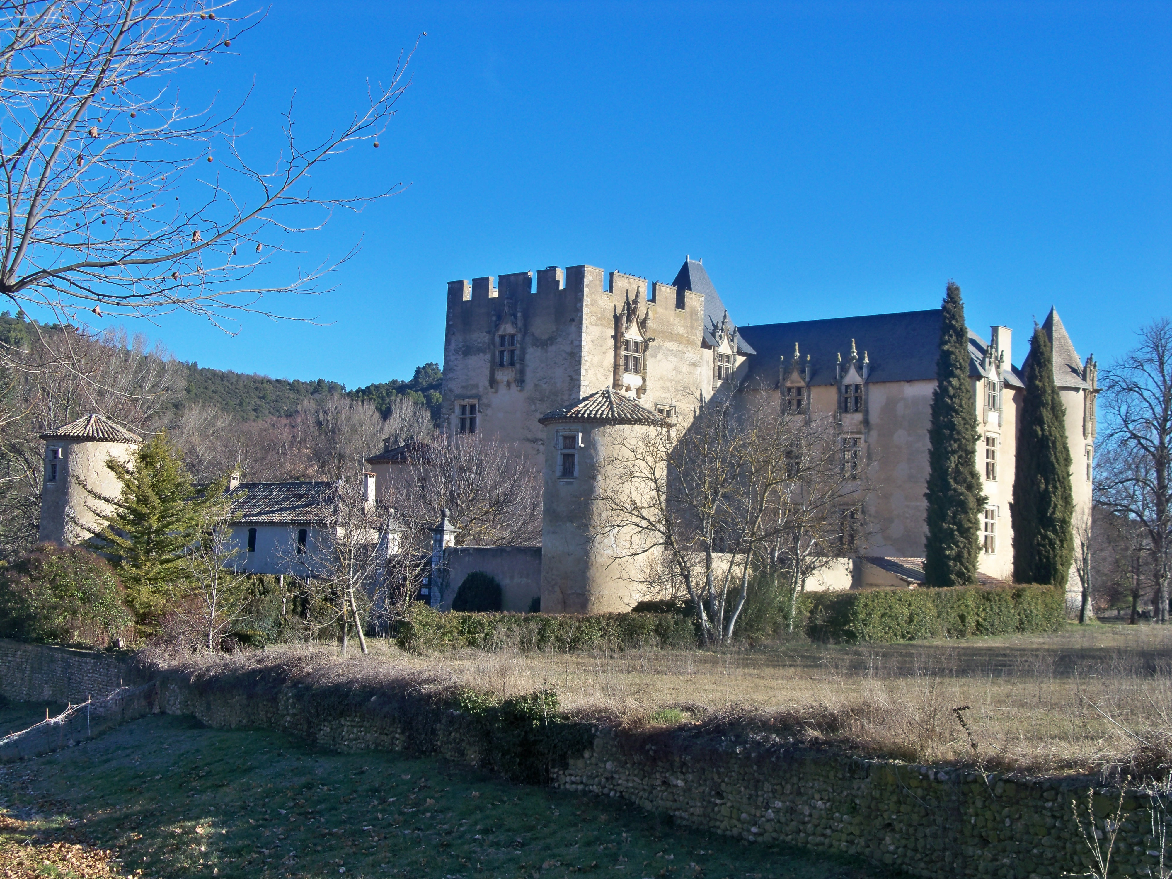 Castle of Allemagne en Provence, Alpes de Haute Provence, France